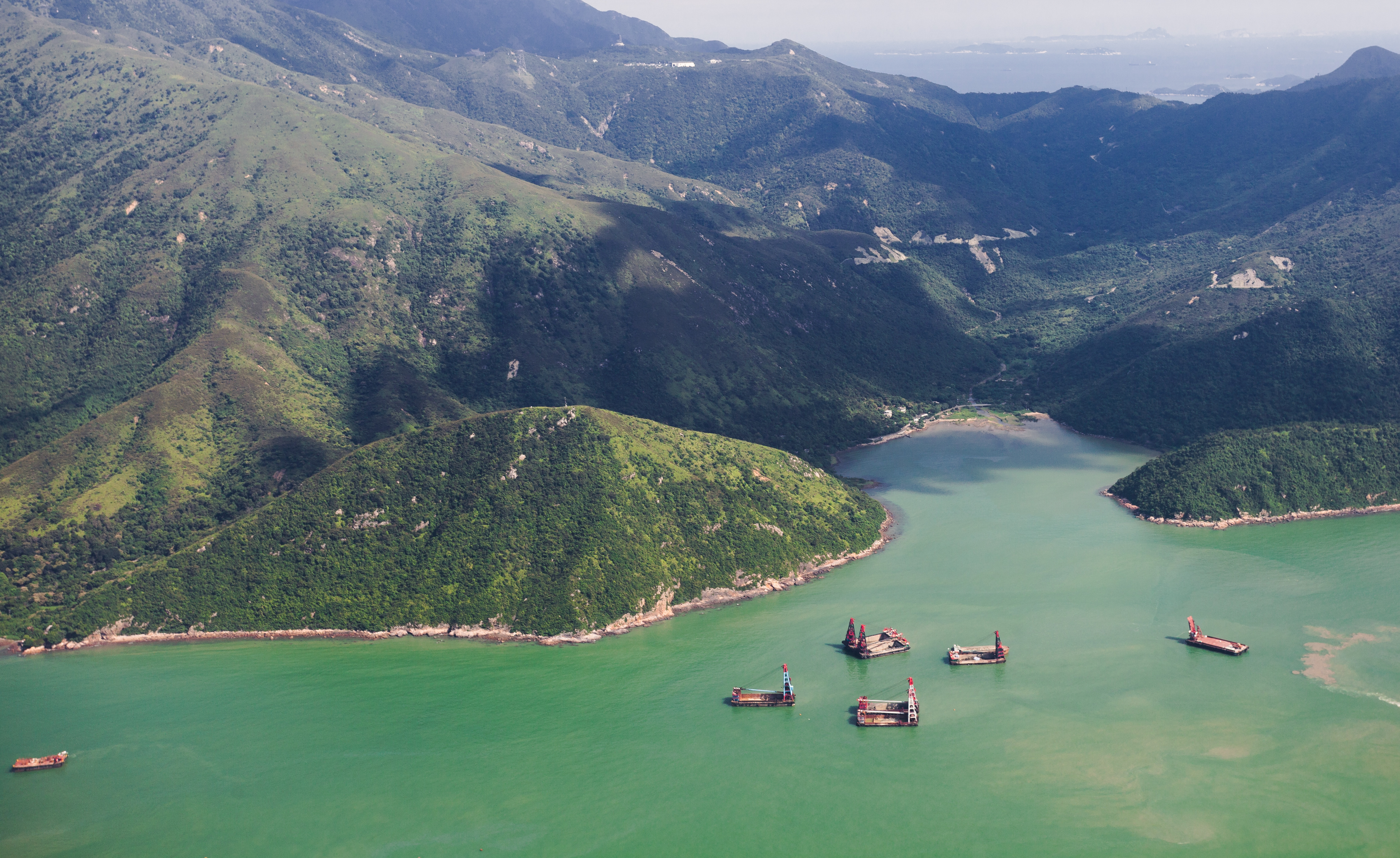 Coast of Lantau Island, Hong Kong